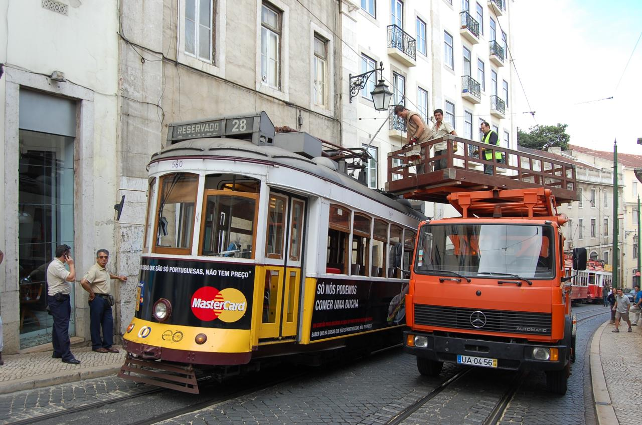 Tram's Trolley Pole Trouble